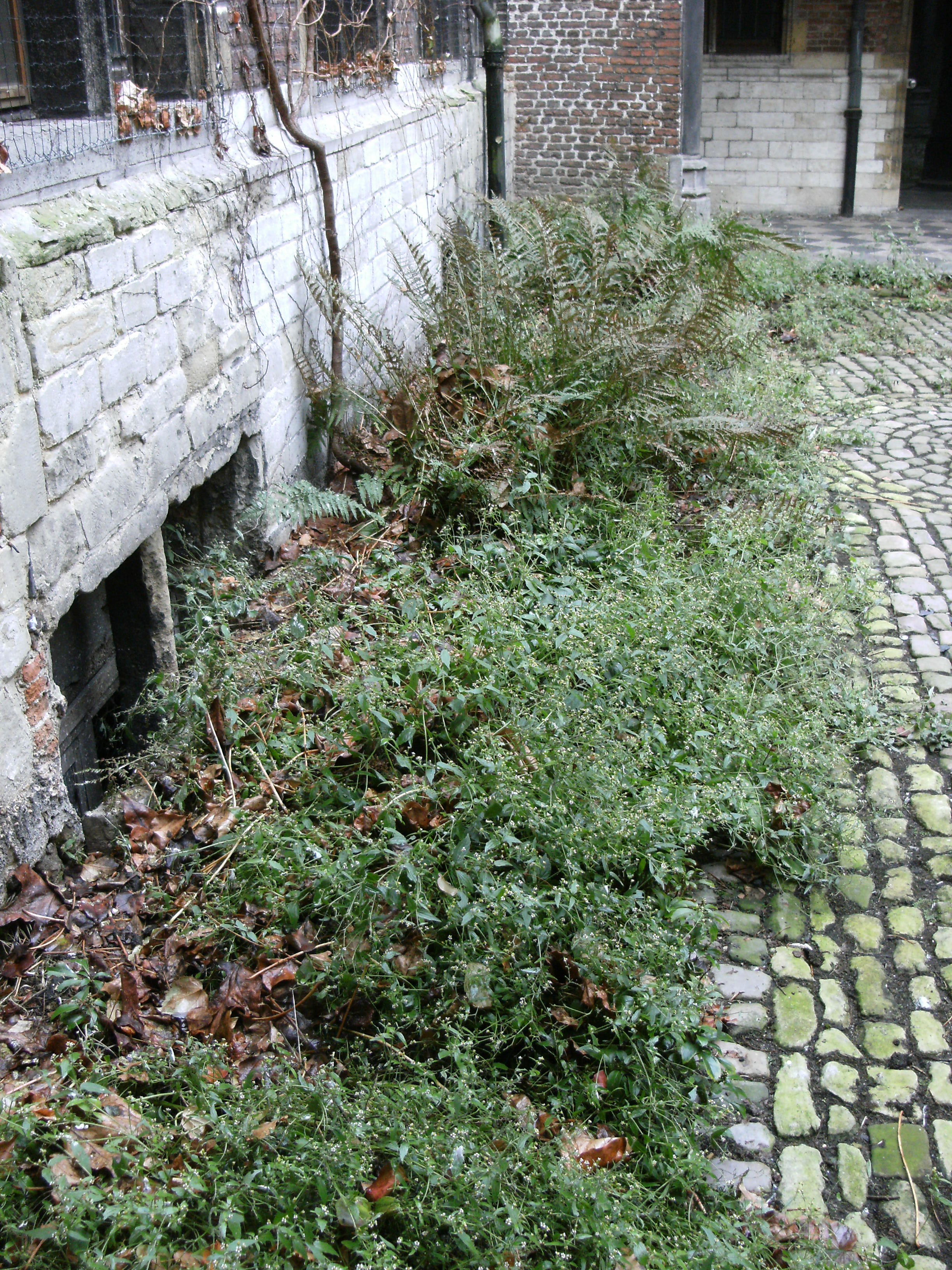 Vegetation at Old Exchange building at Hofstraat 15 Antwerpen.